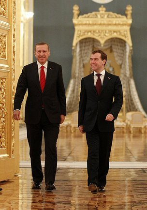 Turkish Prime Minister Recep Tayyip Erdogan and Russian President Dmitry Medvedev in Moscow, Russia.